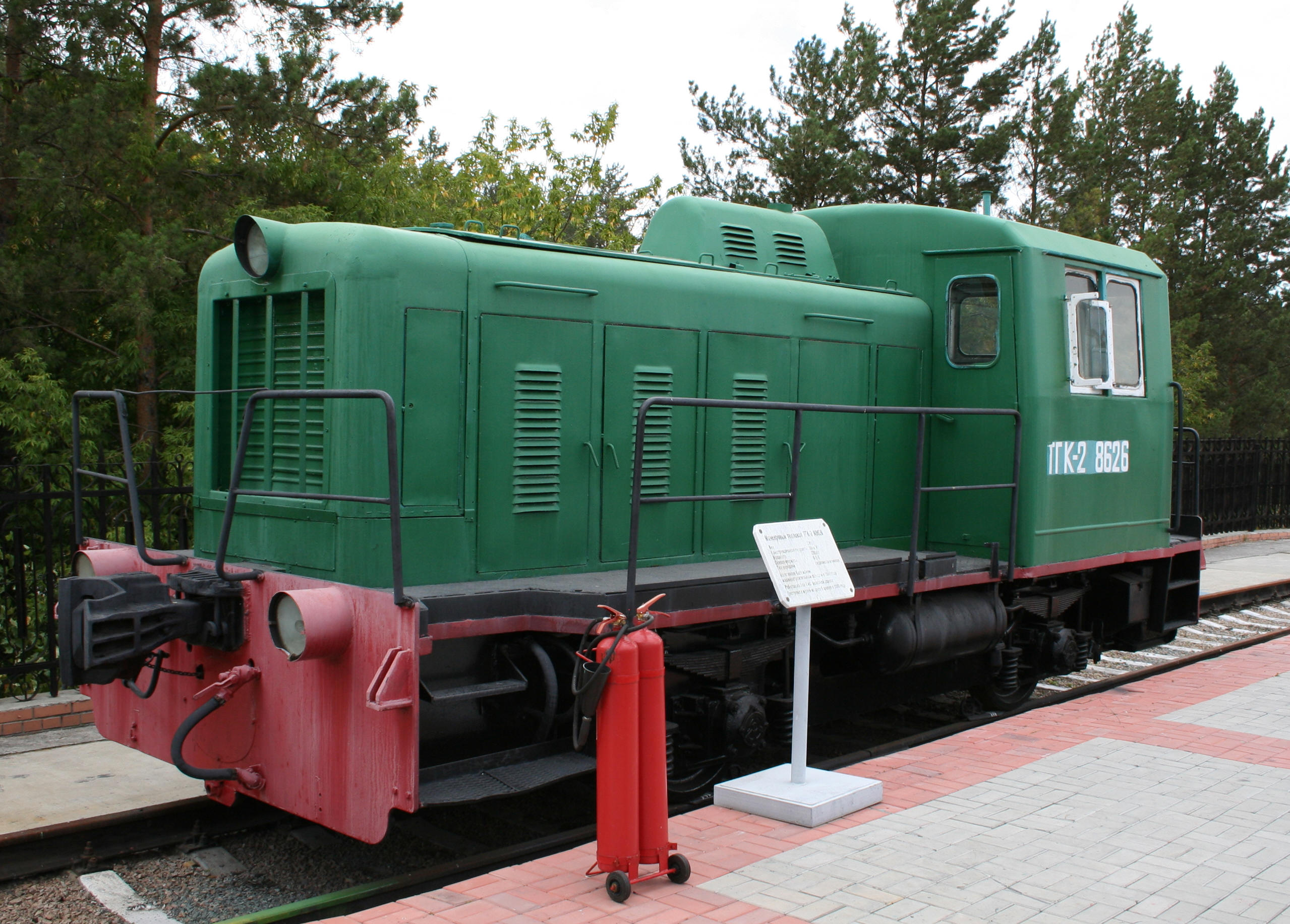 Diesel locomotive ТГК2 №8626 in Novosibirsk Railway Museum